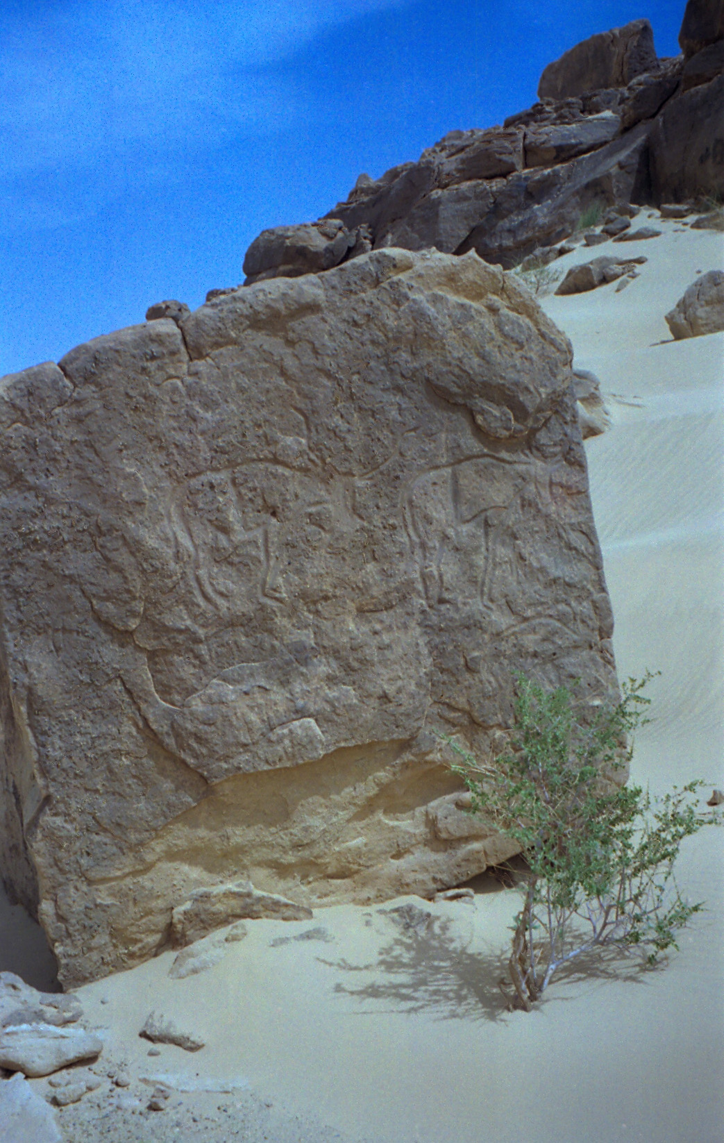 Ancient rock engraving. In the southern Sahara near Tiguidit, Niger, 1997.1997 #278-8 Sahara glyph